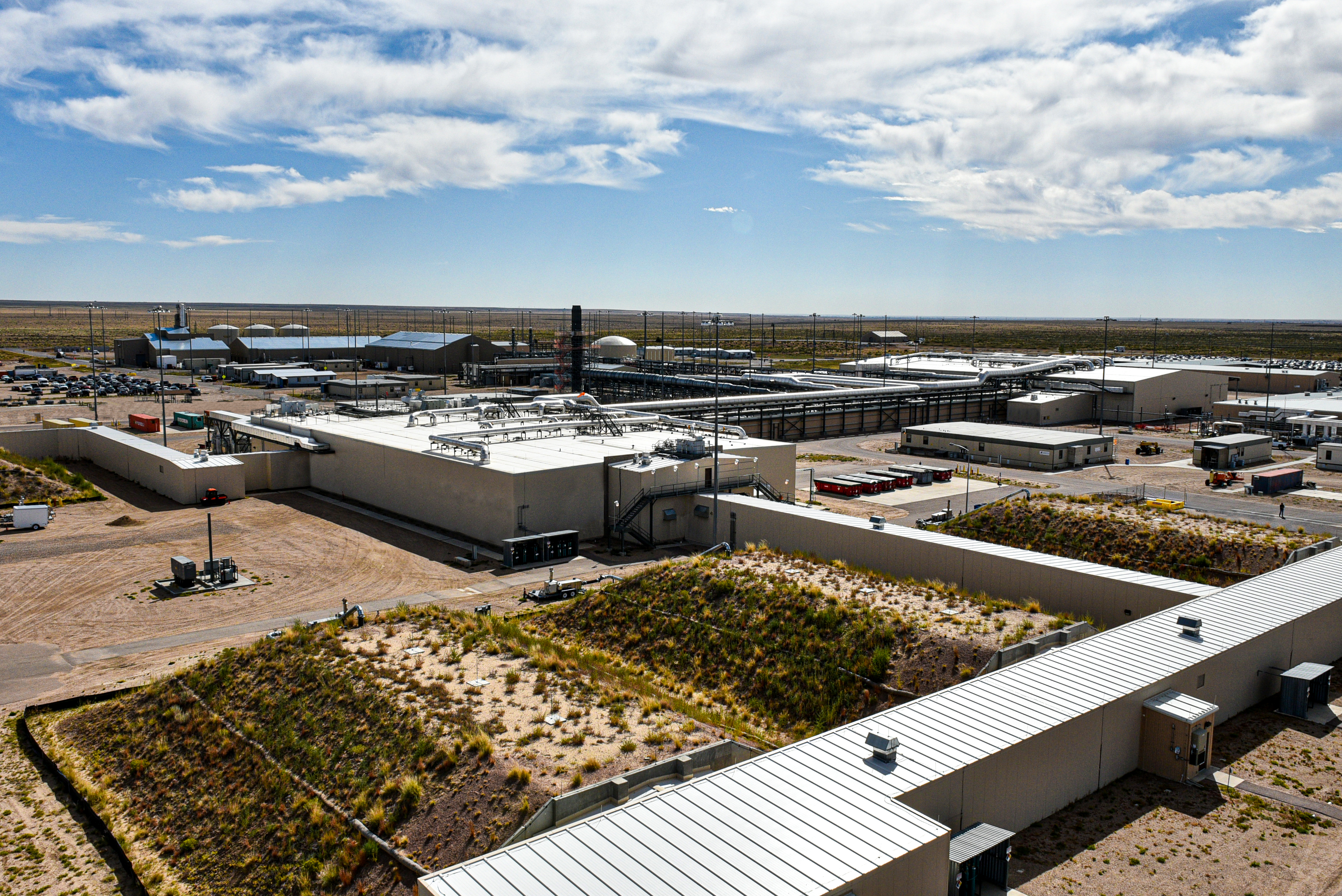 An aerial view of the Pueblo Chemical Agent-Destruction Pilot Plant taken on 9 Oct. 2019.